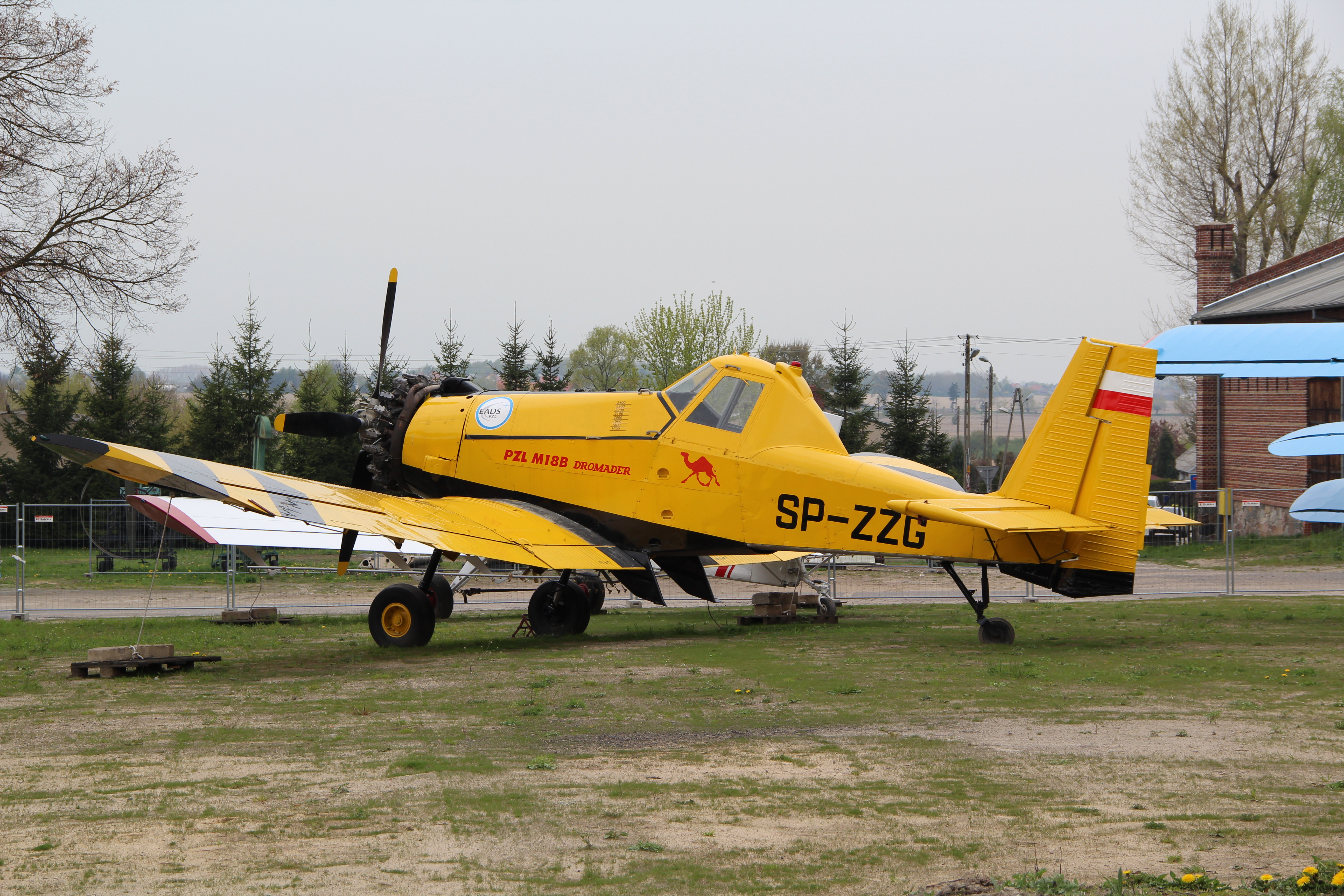 National Museum of Agriculture in Szreniawa